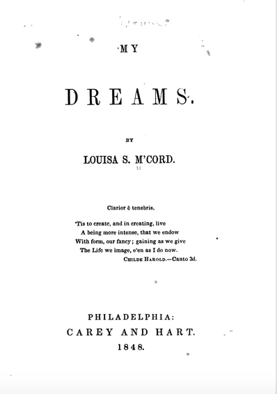 My Dreams, By Louisa Susannah Cheves McCord